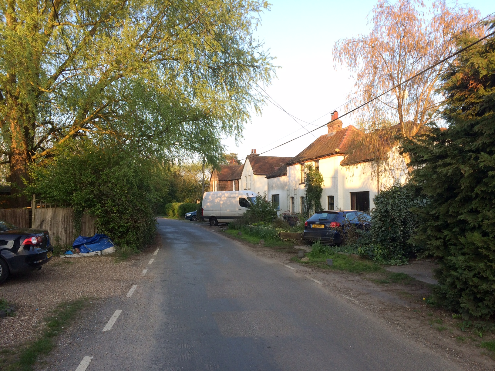 Clatterford End going towards Ongar